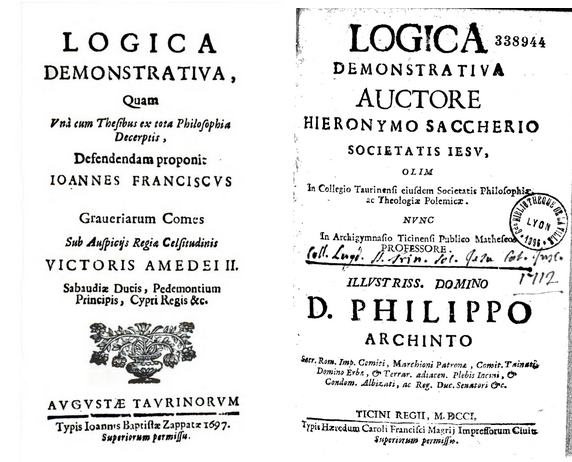 Frontpage of 1st and 2nd edition of Logica Demonstrativa (1697 and 1701) by Girolamo Saccheri (1667-1731)